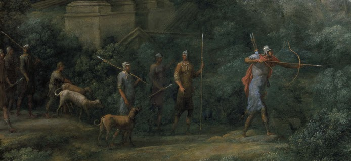 Ascanius Shooting the Stag of Sylvia